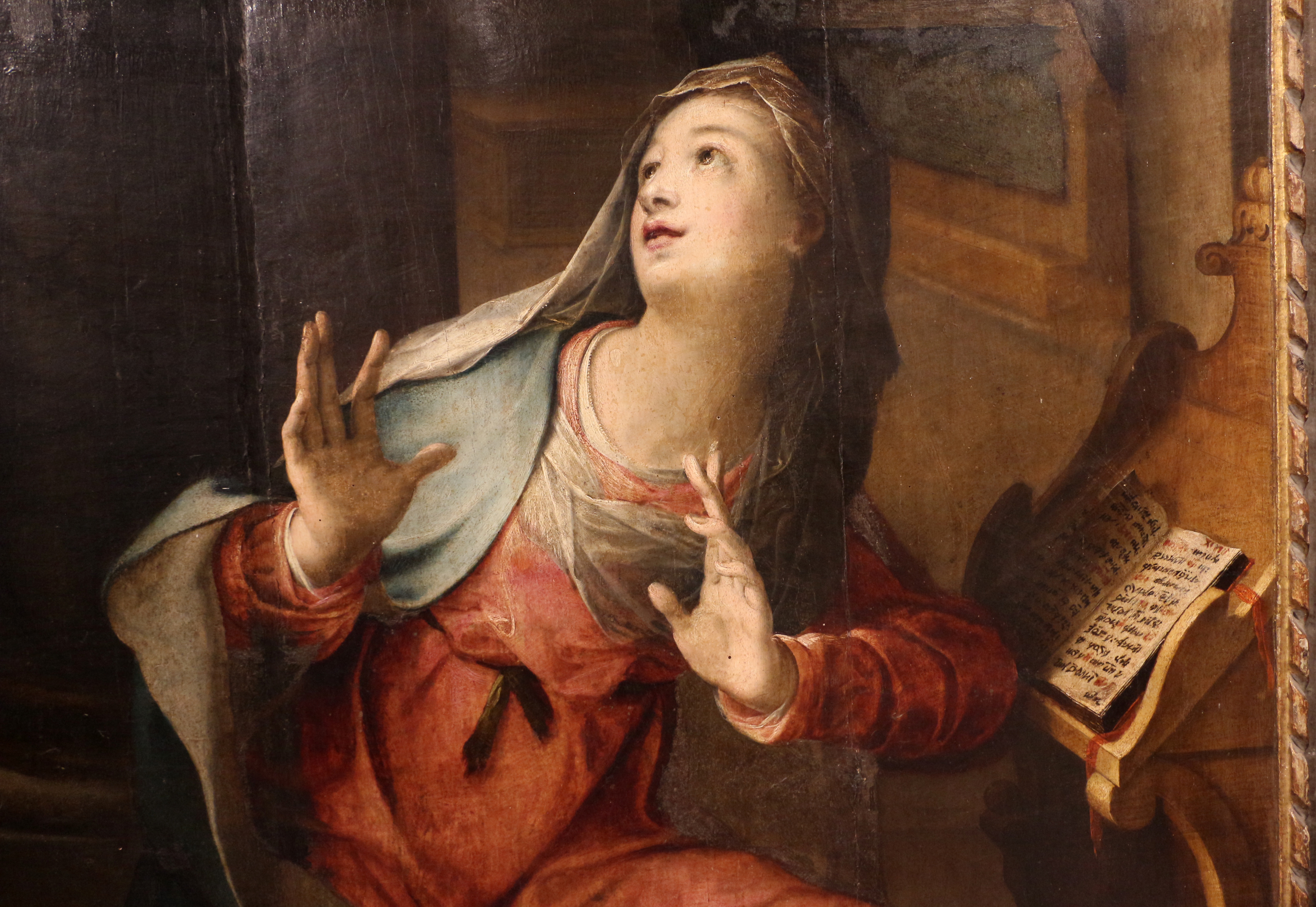 Il Tesoro d'Italia (exhibition at Expo 2015)